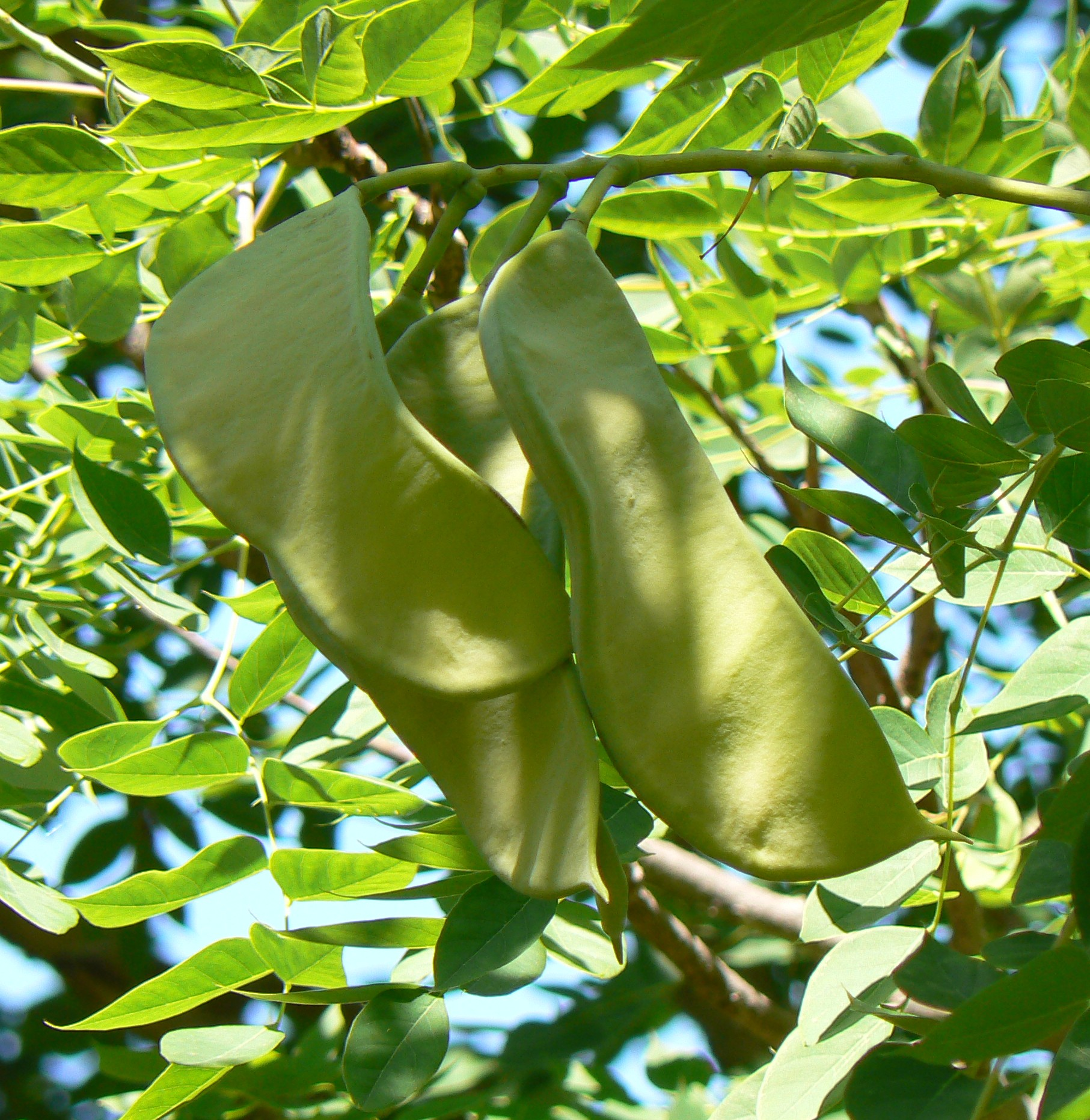 Seed pods of the Kentucky Coffeetree at DeSoto National Wildlife Refuge